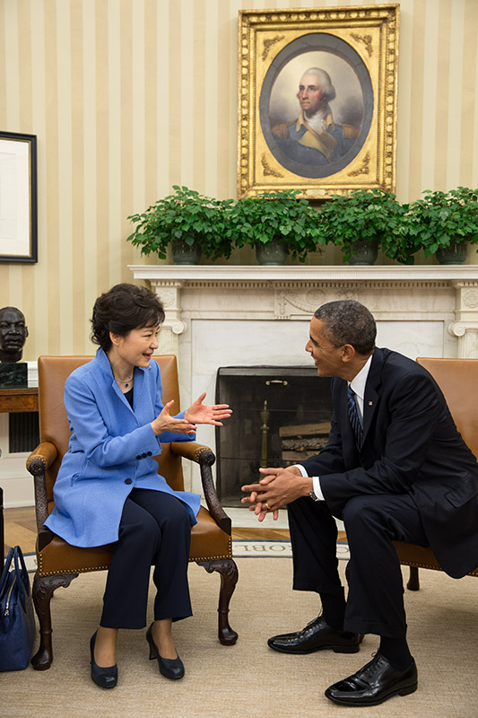 President Barack Obama holds a bilateral meeting with President Park Geun-hye of the Republic of Korea, in the Oval Office, May 7, 2013. (Official White House Photo by Pete Souza)